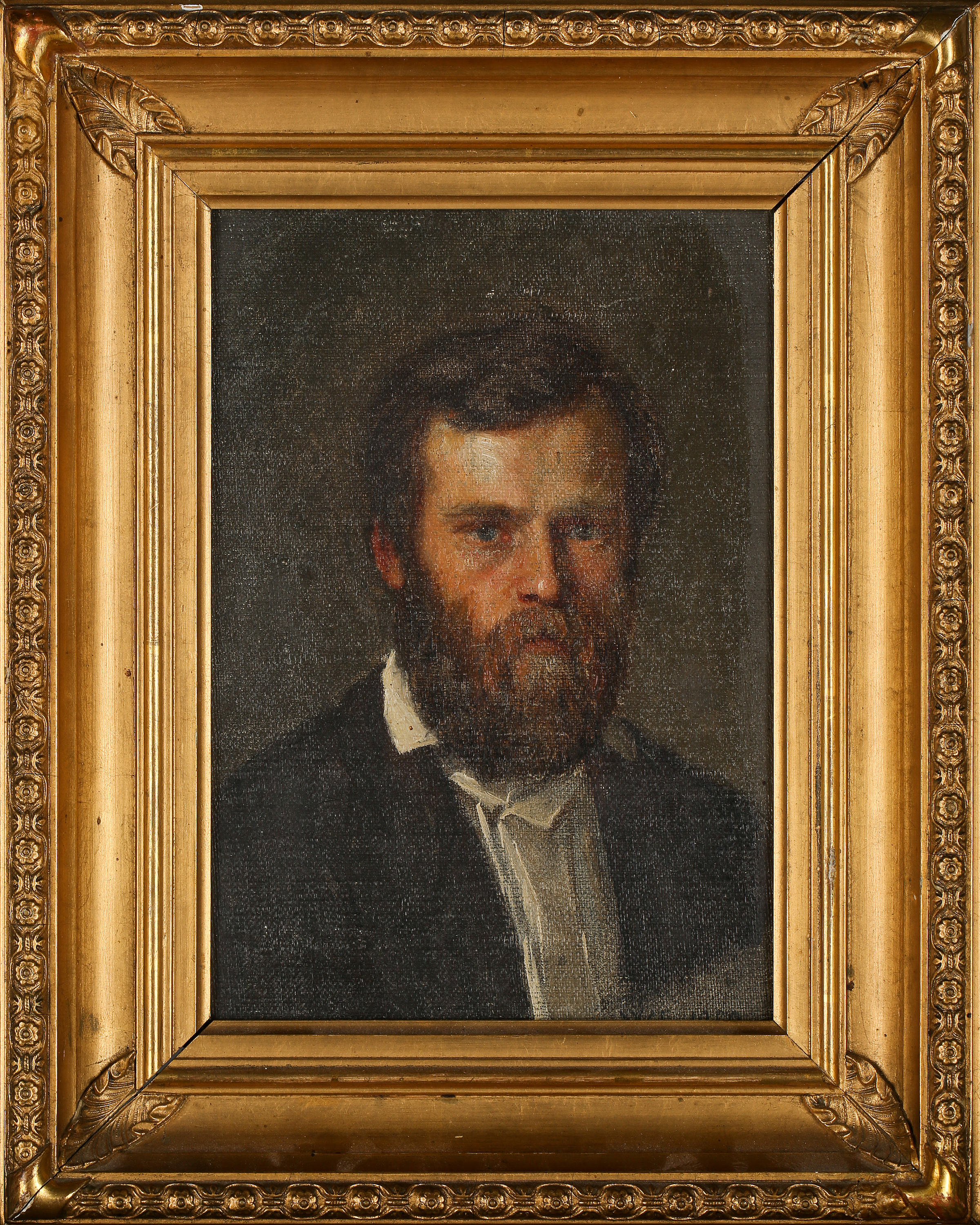 WILHELMINA LAGERHOLM, painted in 1859